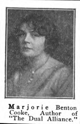 American author Marjorie Benton Cooke